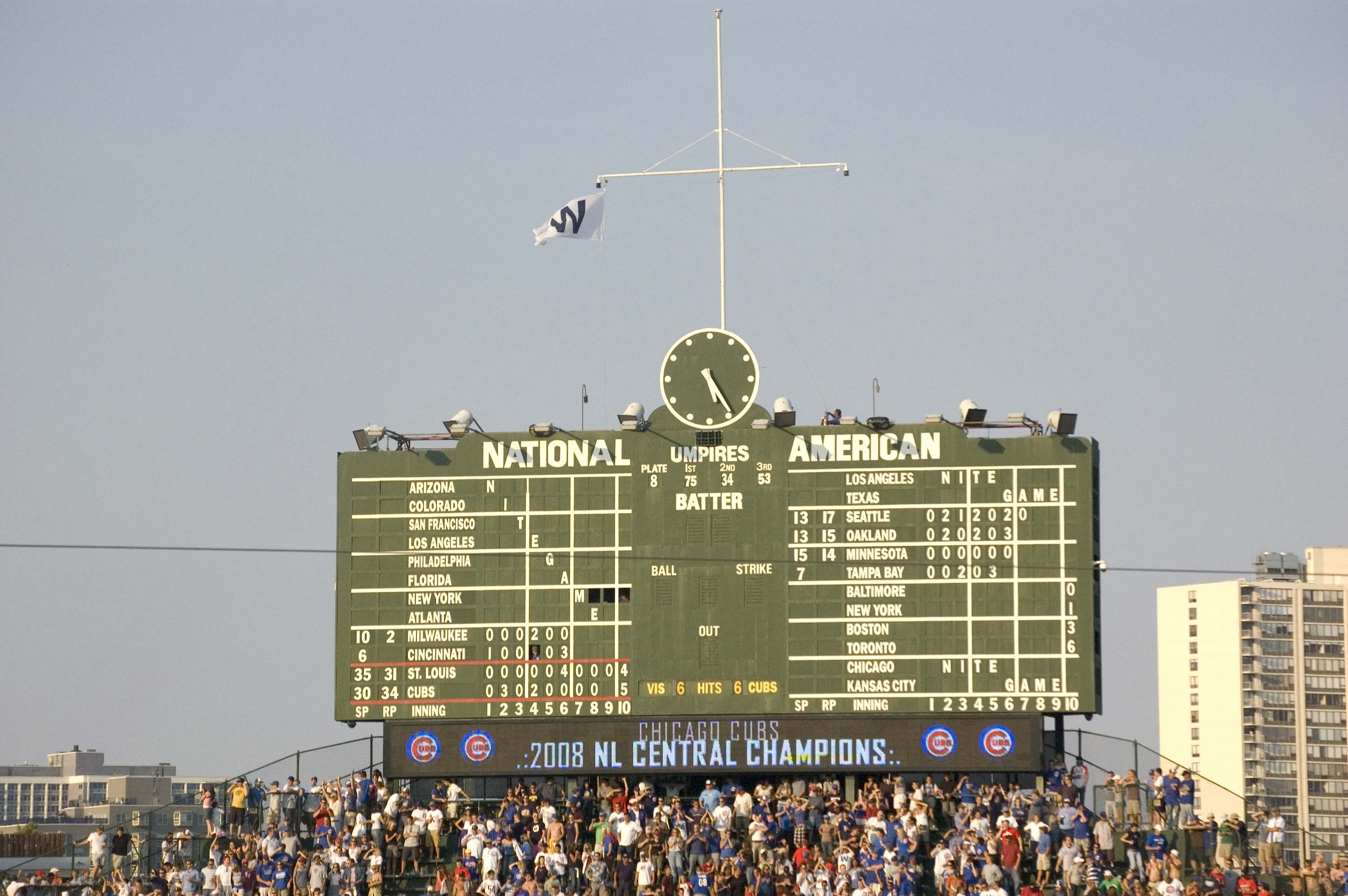 Cubs Win Flag on the day they clinched the 2008 Division Championship